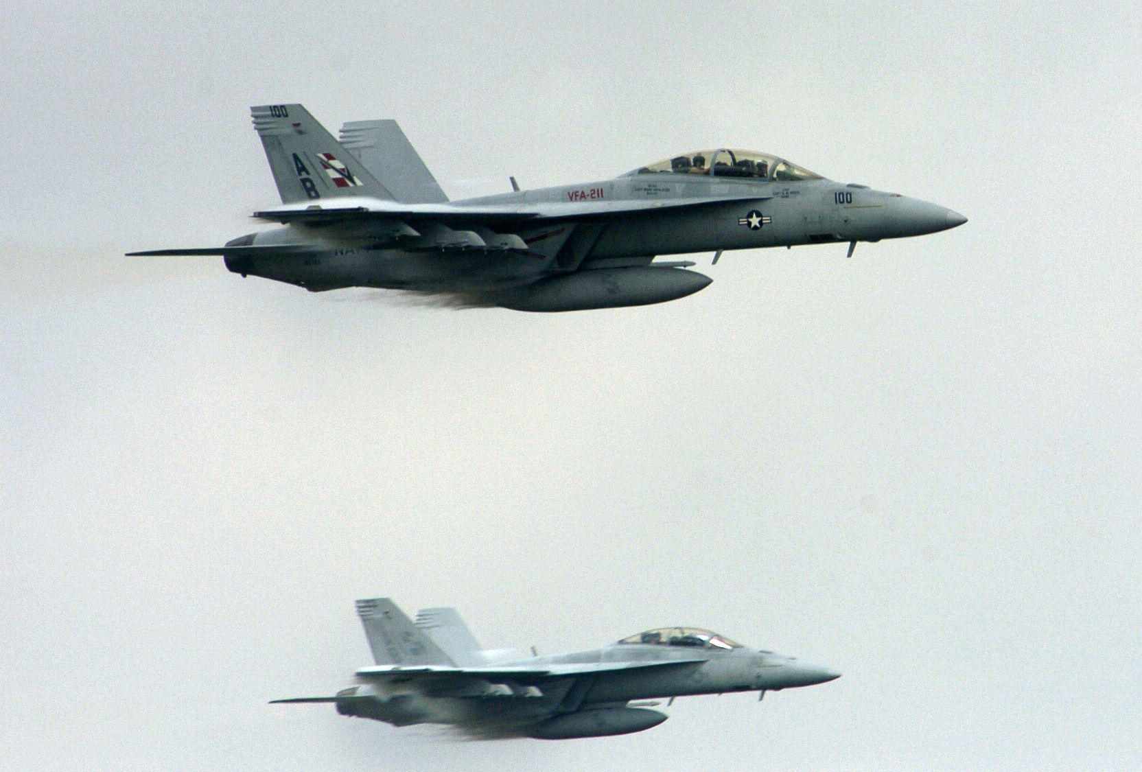 Virginia Beach, Va. (Sept. 16, 2005) - Two F/A-18F Super Hornets, assigned to the “Checkmates” of Strike Fighter Squadron Two One One (VFA-211), conduct a high-speed reconnaissance pass during the tactical air power demonstration as part of the 2005 Naval Air Station Oceana Air Show. The demonstration showcased multiple F-14 Tomcats and F/A-18 Hornets displaying various maneuvers and simulated bomb and staffing passes in front of the crowd. The air show, held Sept. 16-18th, showcased civilian and military aircraft from the Nation's armed forces, which provided many flight demonstrations and static displays. U.S. Navy photo by Photographer's Mate 2nd Class Daniel J. McLain (RELEASED)